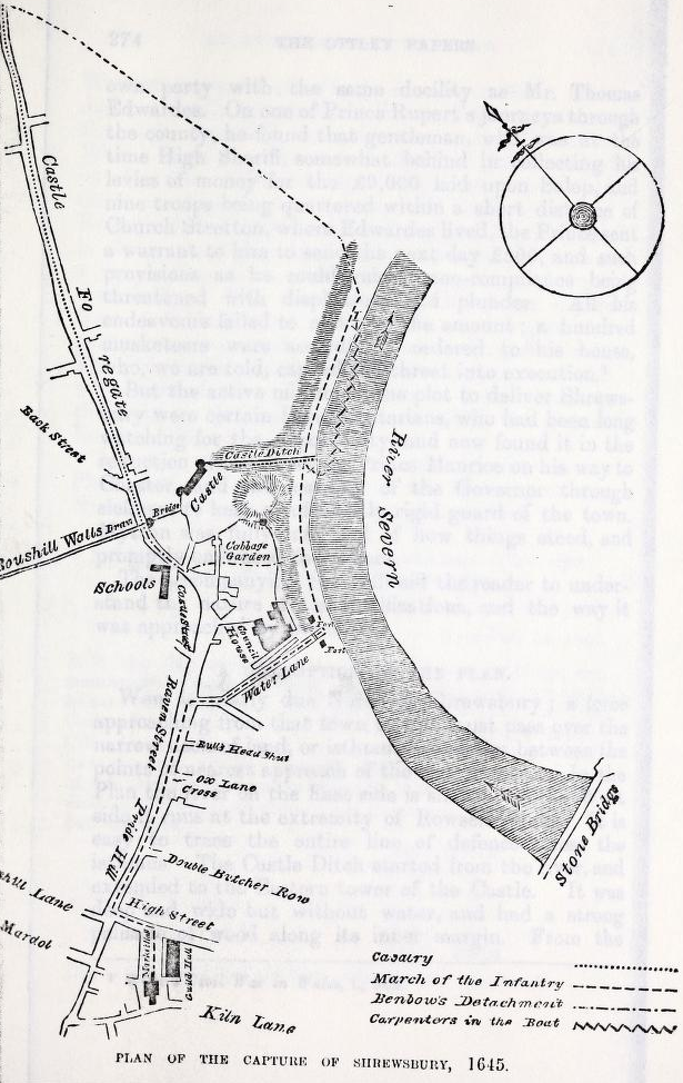 Plan of the capture of Shrewsbury by parliamentarian forces, 21 February 1645. Derived ultimately from Owen and Blakeway's History of Shrewsbury, Volume 1.